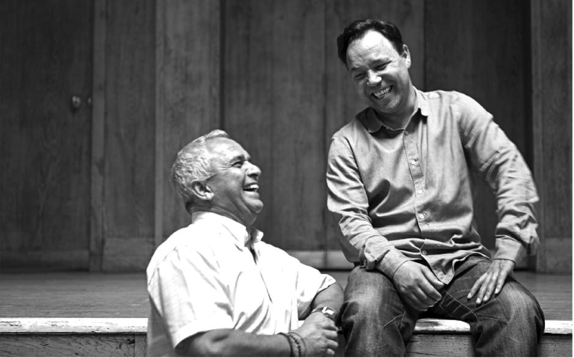 Stephen Graham & Mickey DeHara shot by Susan Bingham for CLASH (magazine)